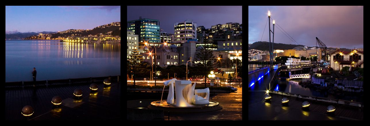 Night view of the Wellington harbour, New Zealand